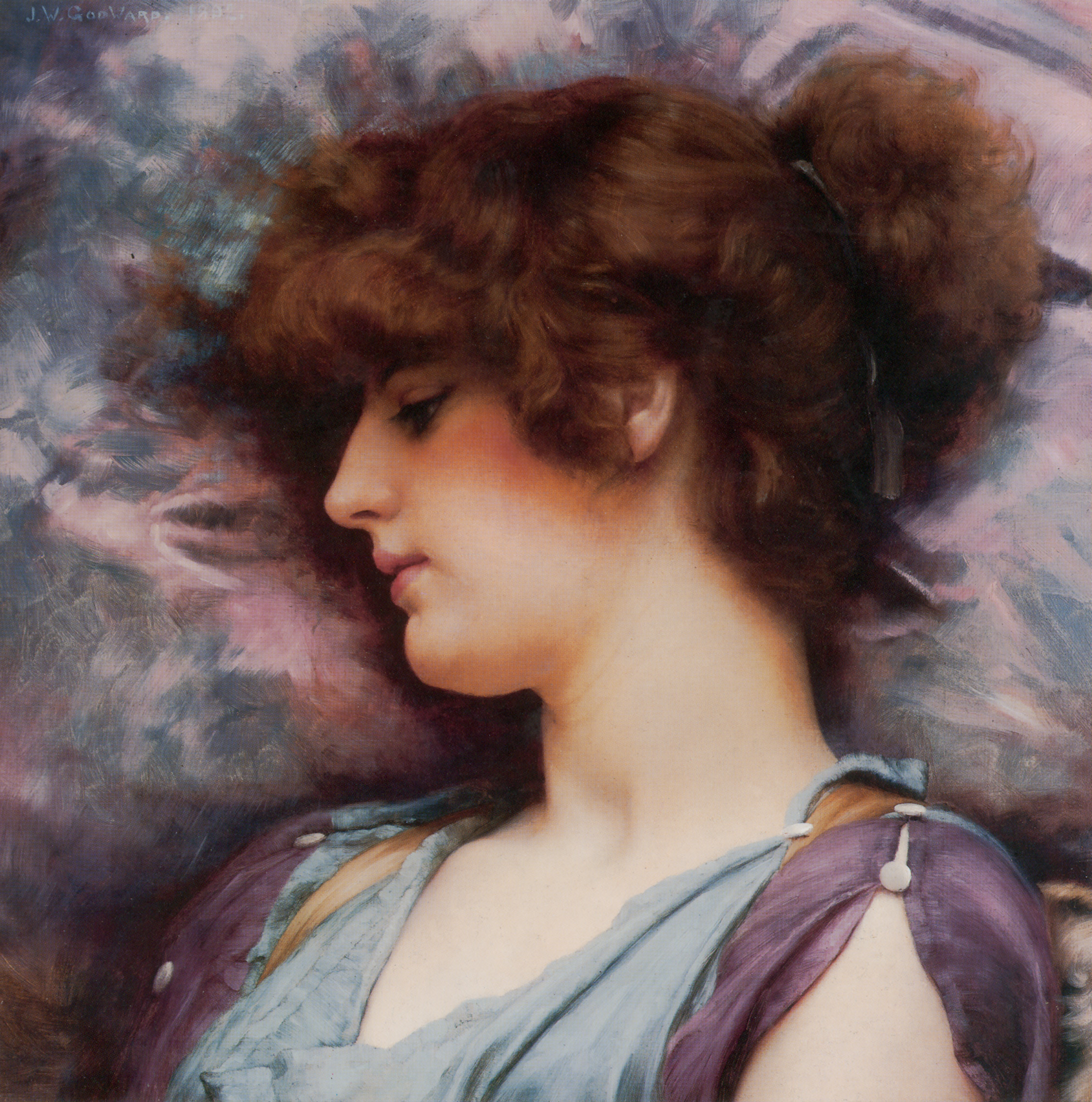 Far Away Thoughts by John William Godward, 1892.